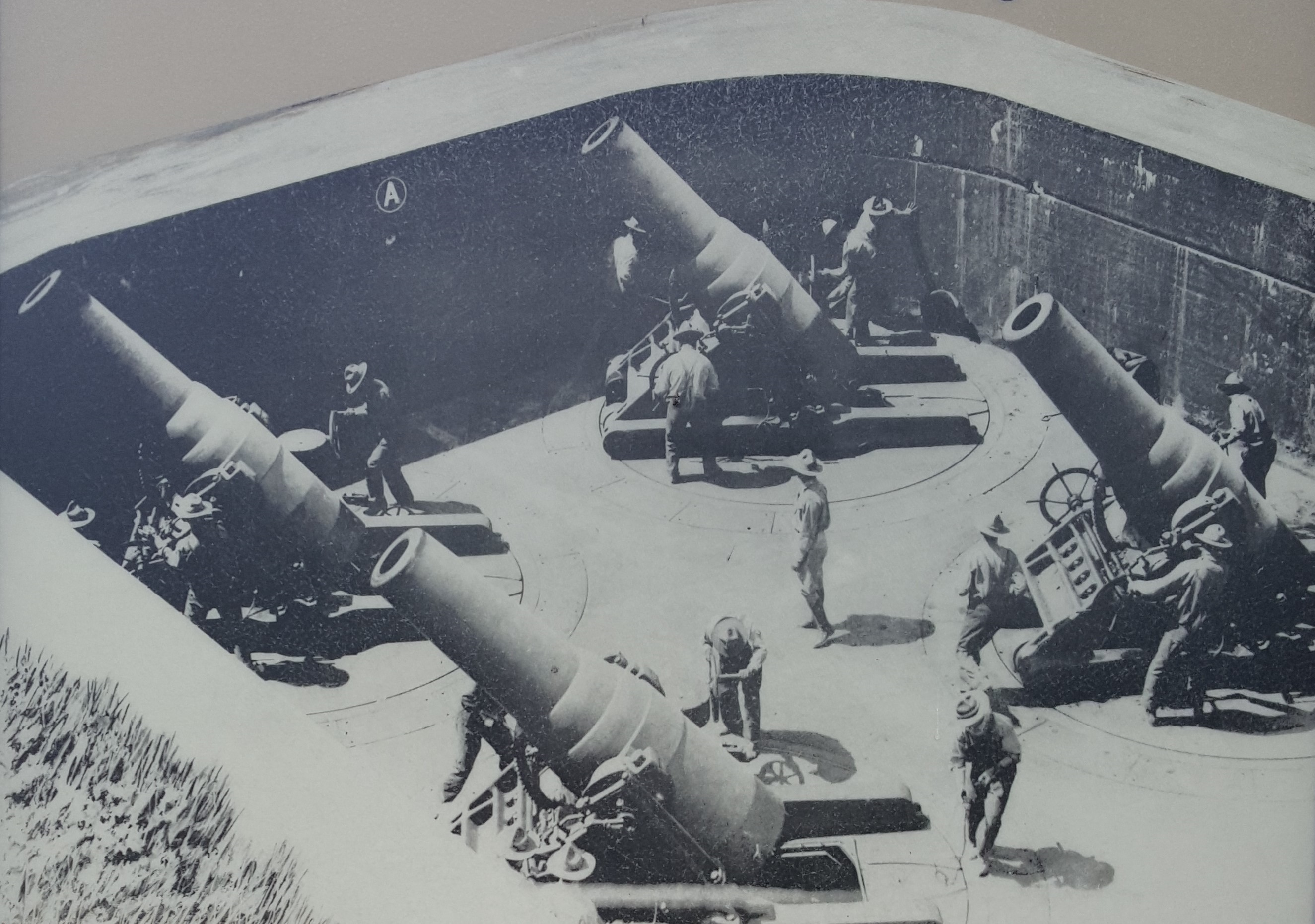 Photograph of 12-inch mortars at Battery Meigs, Fort Washington, MD, circa 1900.